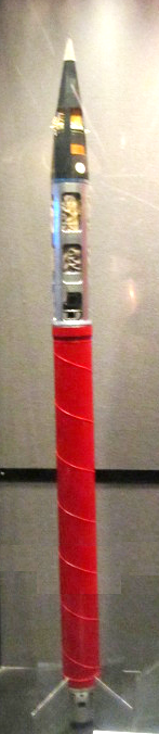 Skua sounding rocket, World Museum Liverpool, England.